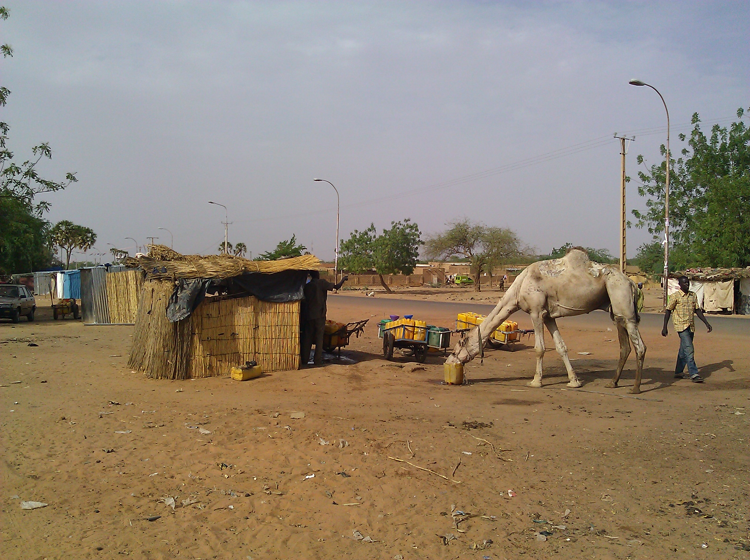 The streets of Niamey